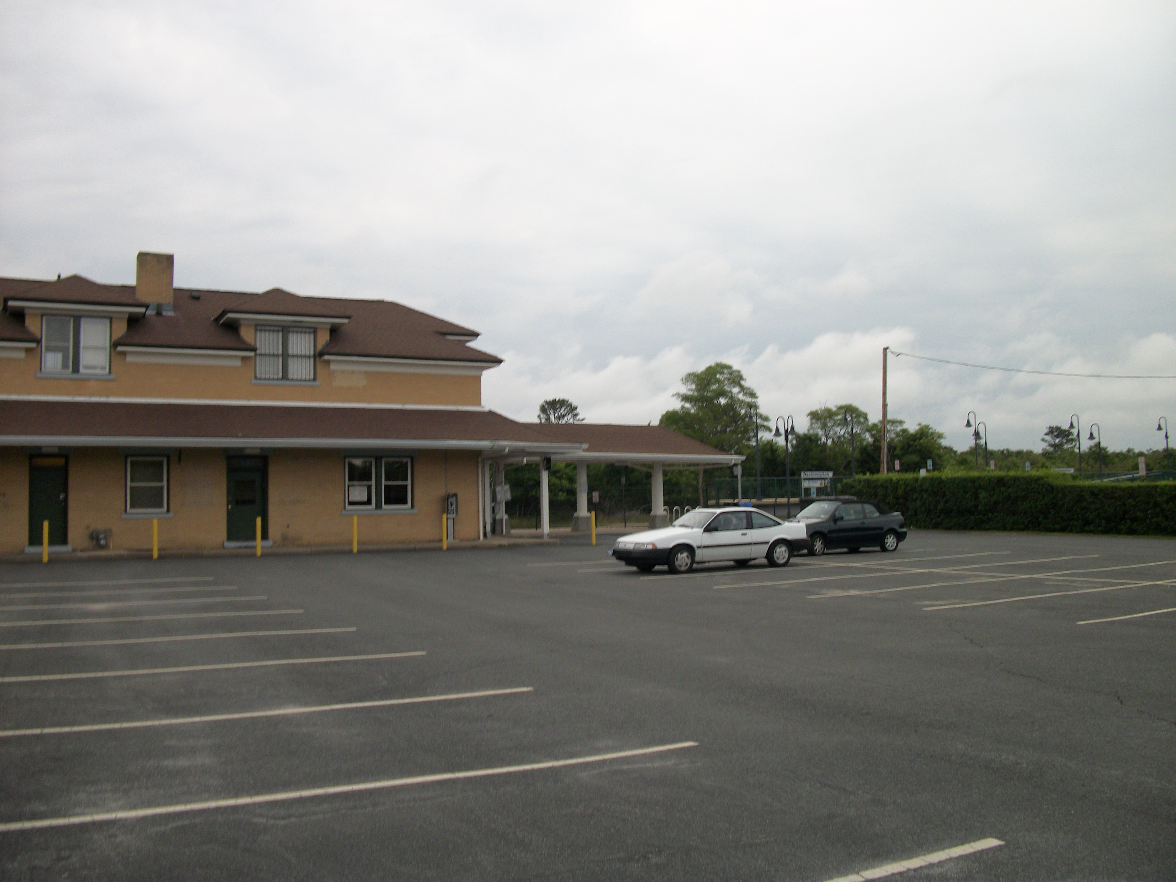 The station house at Westhampton (LIRR station) in Westhampton, New York.